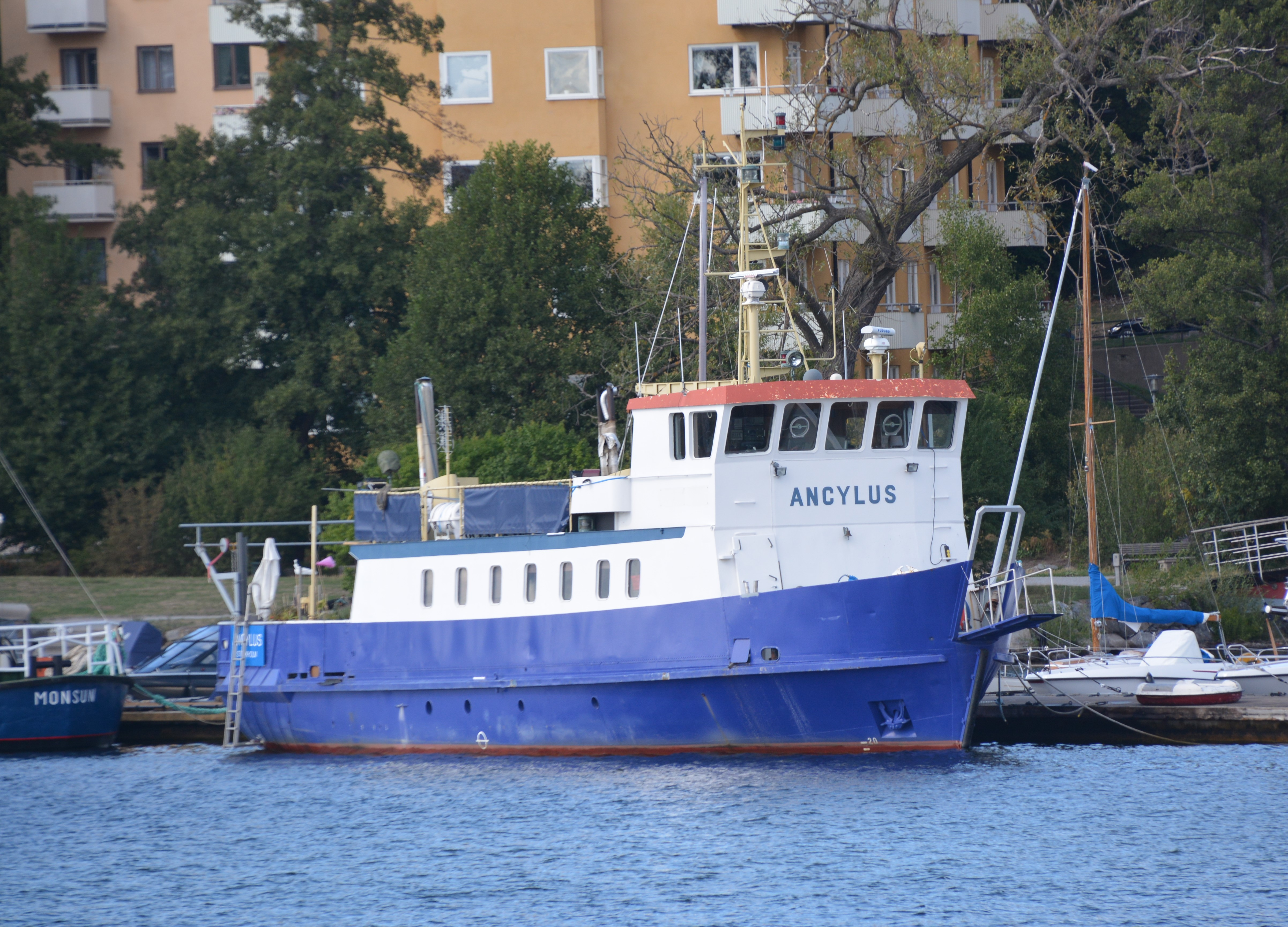 U/F Ancylus fishing research vessel, Stockholm, Sweden